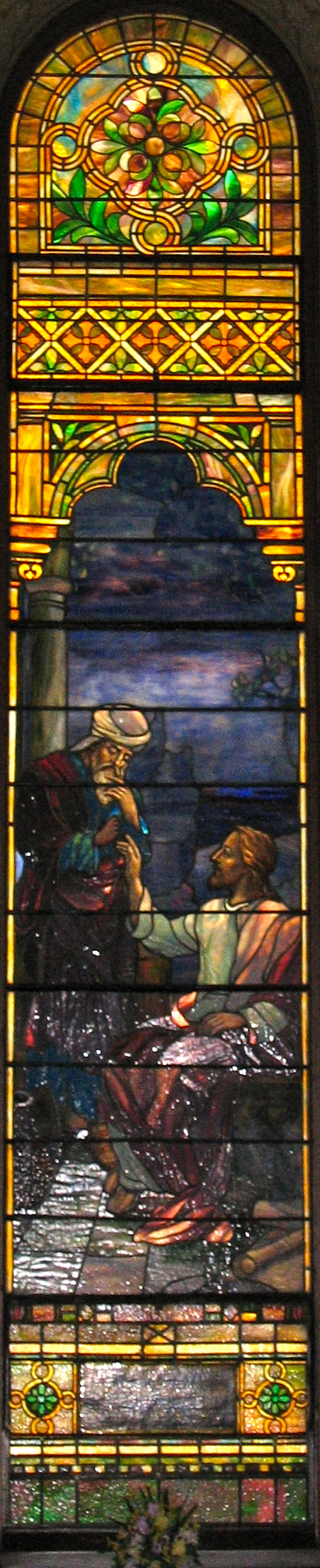 Zion Church's window "Nicodemus"